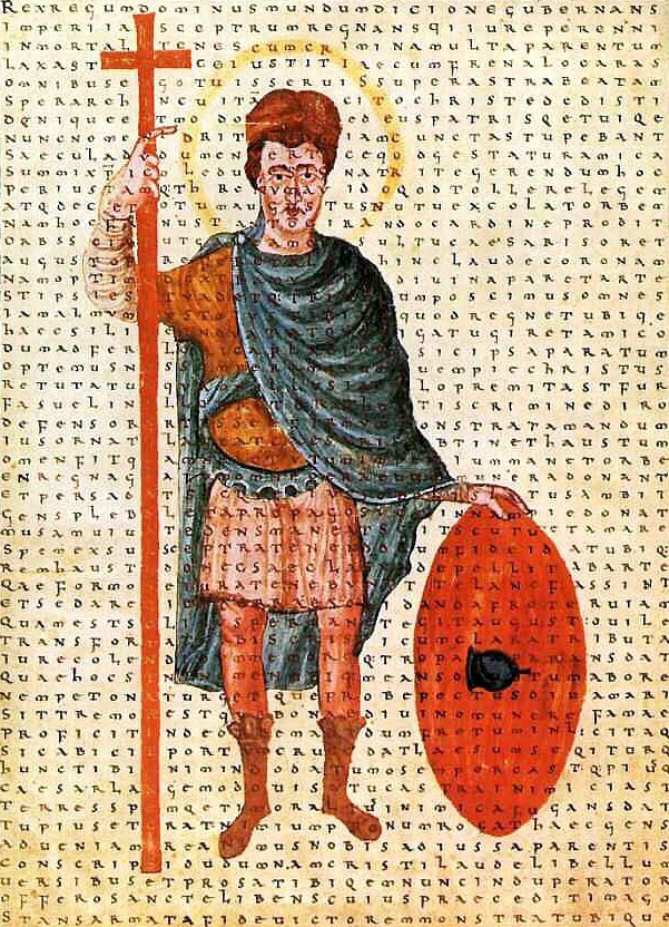 Louis I, Holy Roman Emperor.